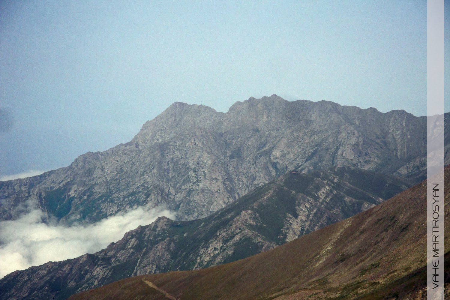 Mount Murovdag or Mrav, view from Mount Gyamish or Gomshasar